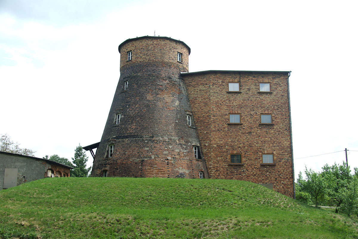 Mill in Turnow, Brandenburg, Germany